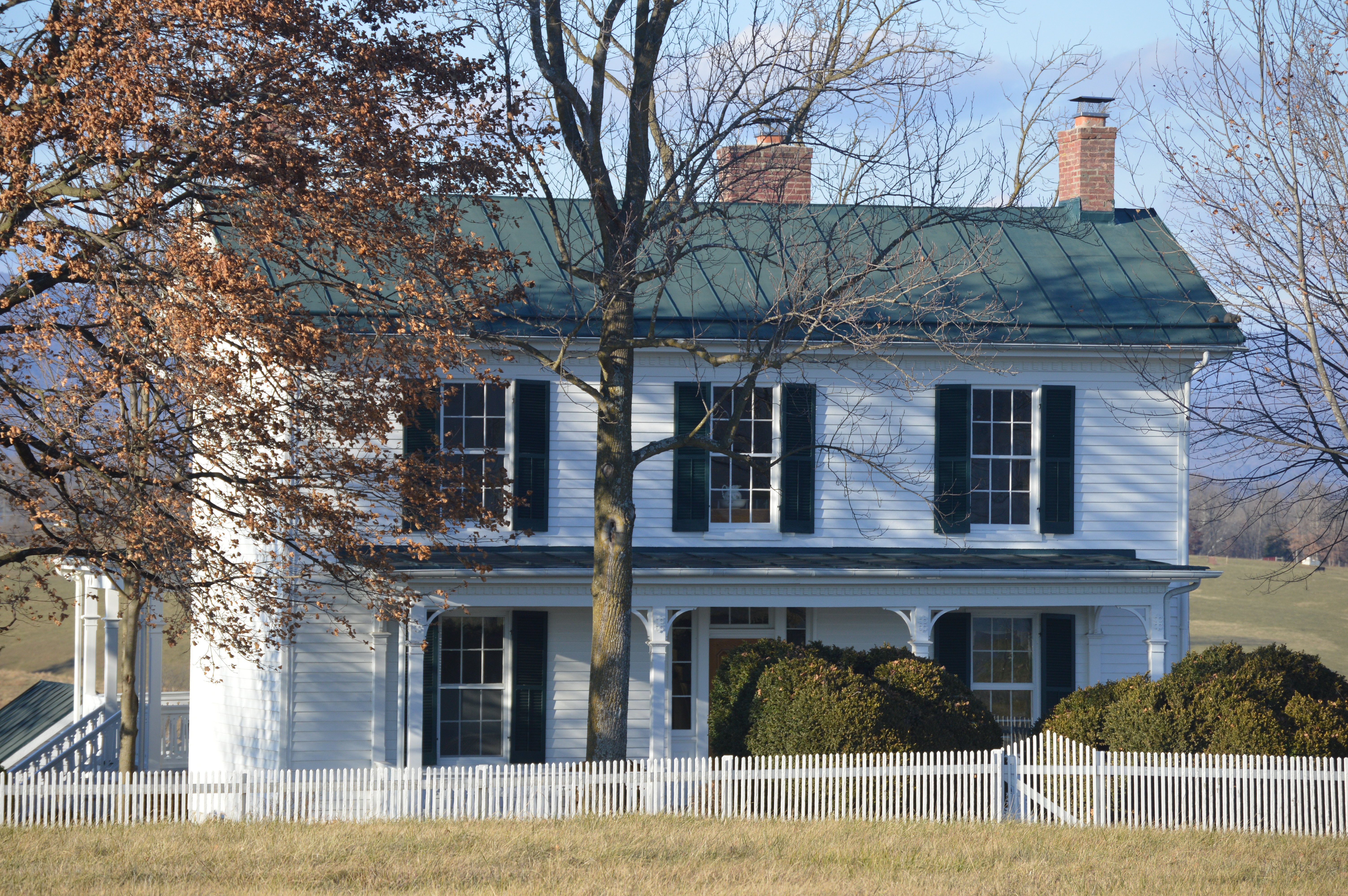 Front and southwestern side of the Bowman-Zirkle Farmhouse, located at 12097 S. Middle Road southwest of Edinburg in Shenandoah County, Virginia, United States. Built in 1823, it is listed on the National Register of Historic Places.